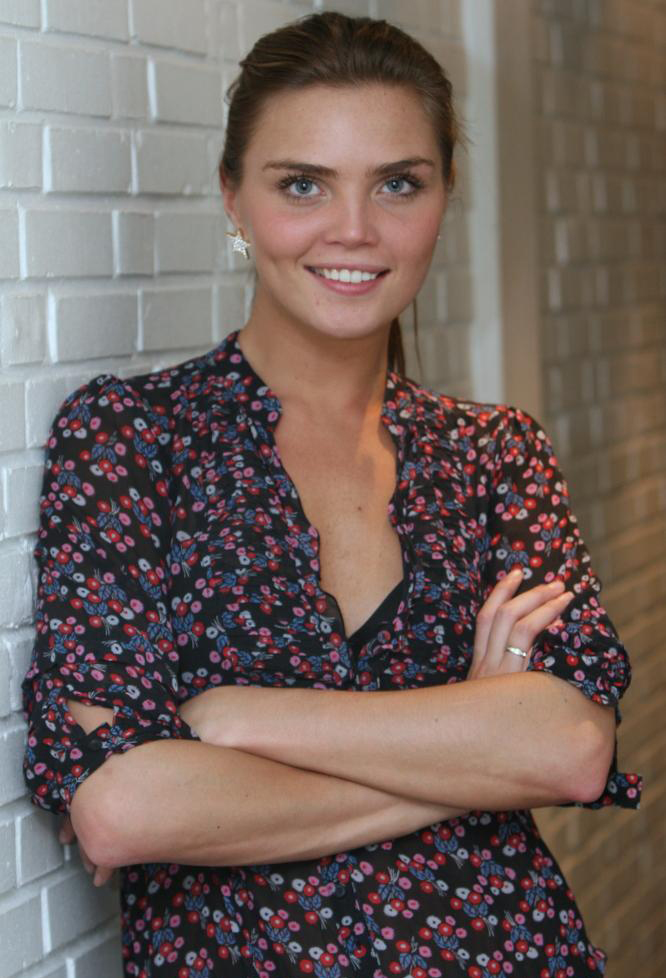 Kim Feenstra, a Dutch photo model